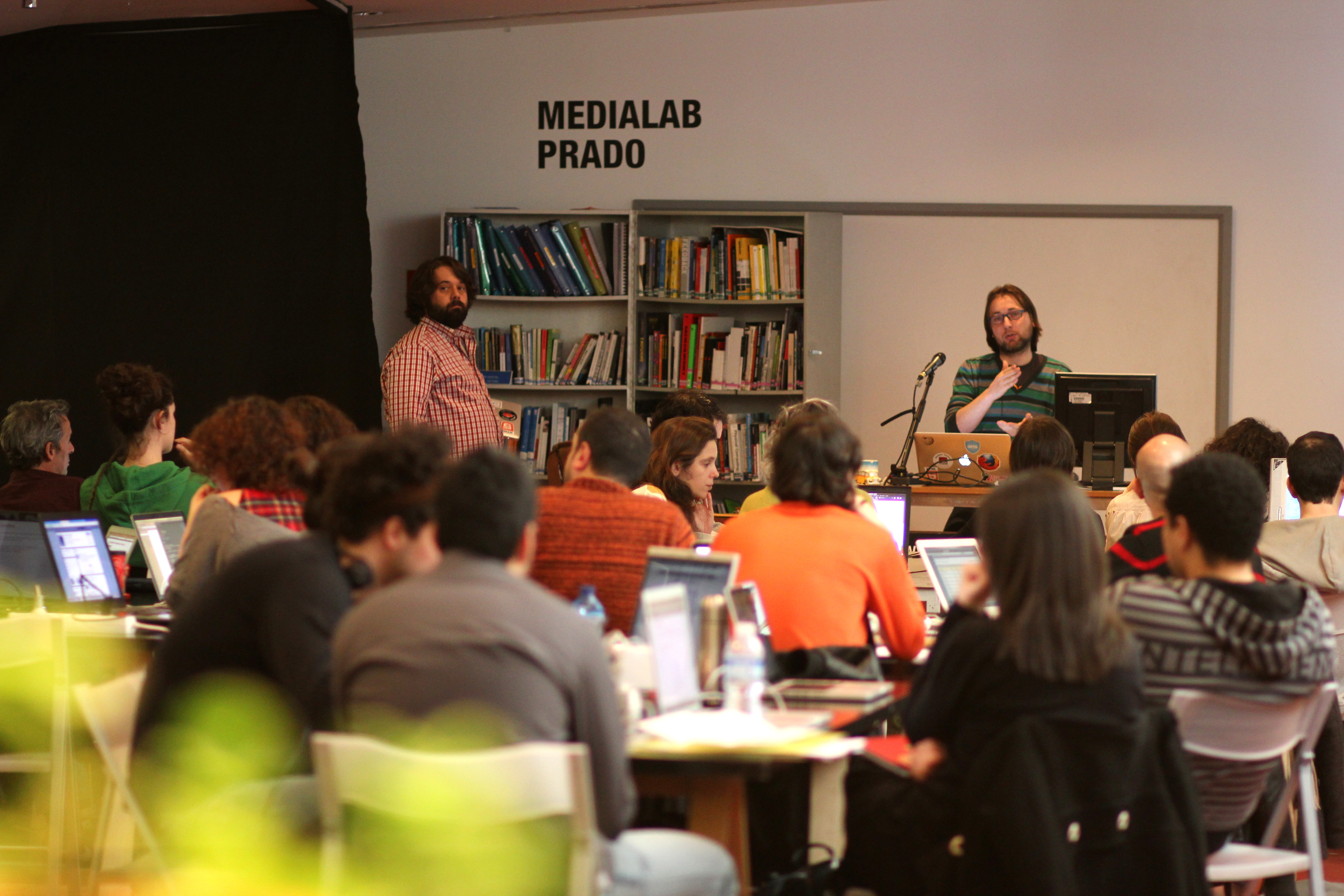 Taller de Open Video con HTML 5 desarrollado por A Navalla Suíza. Esta actividad se enmarca entre las actividades propuestas por el grupo de trabajo VideoFramesh de Master DIWO en los Viernes Openlab.